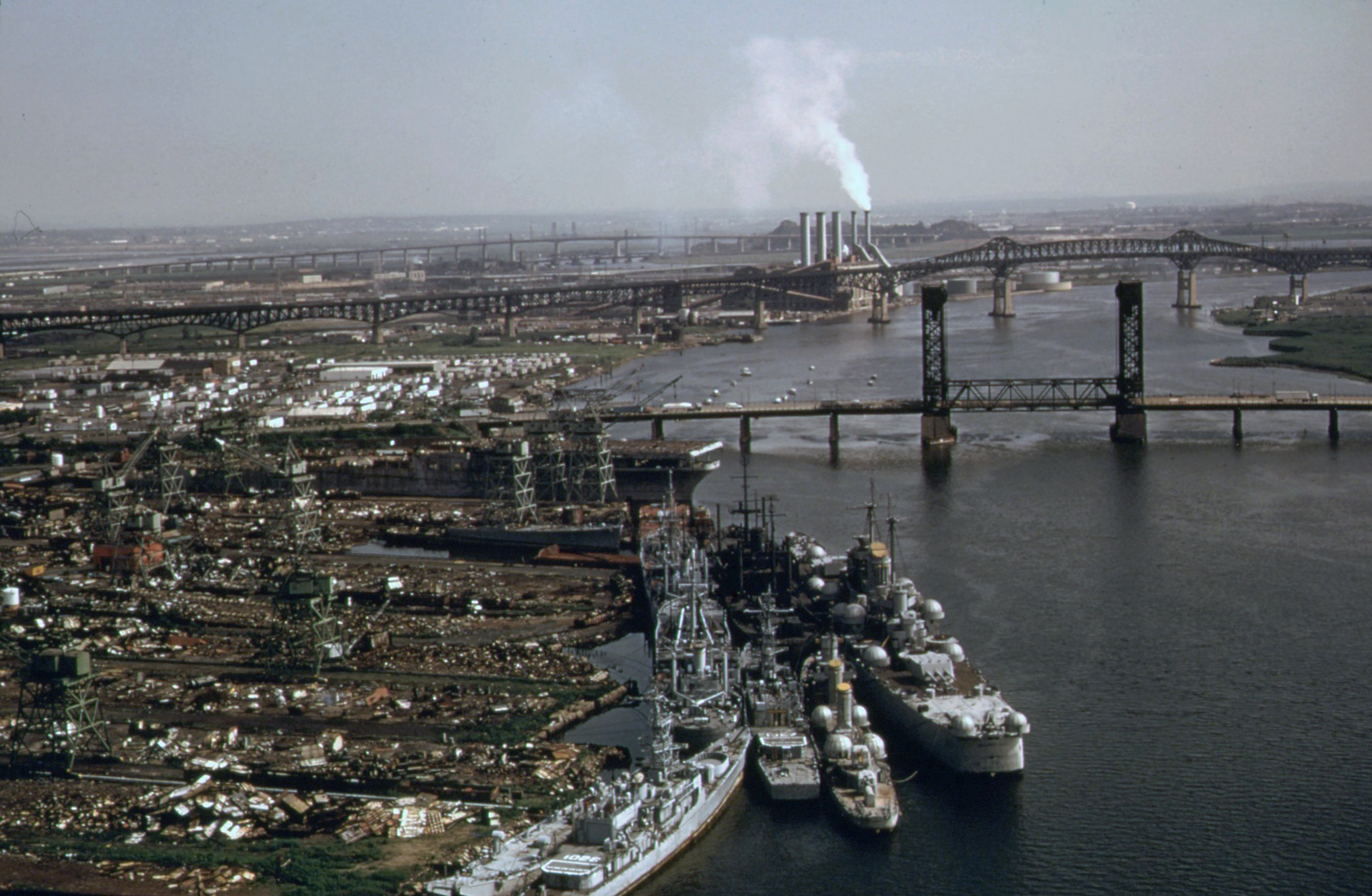 Former U.S. Navy ships awaiting scrapping by the Union Minerals and Alloys Corporation at the site of the former Federal Shipbuilding and Drydock Company, Kearny, New Jersey (USA). The Lincoln Highway Hackensack River Bridge is just behind that with the Pulaski Skyway and Kearny Generating Station beyond. Identifiable in the foreground are: the heavy cruiser USS Oregon City (CA-122), outboard; a Fletcher-class destroyer; the destroyer escort USS John Willis (DE-1027); USS Hooper (DE-1026). The aircraft carrier USS Antietam (CV-36) is being scrapped in the background. Note that the ship ahead of John Willis and alongside of Oregon City still seems to be painted in World War II Camouflage Measure 21.